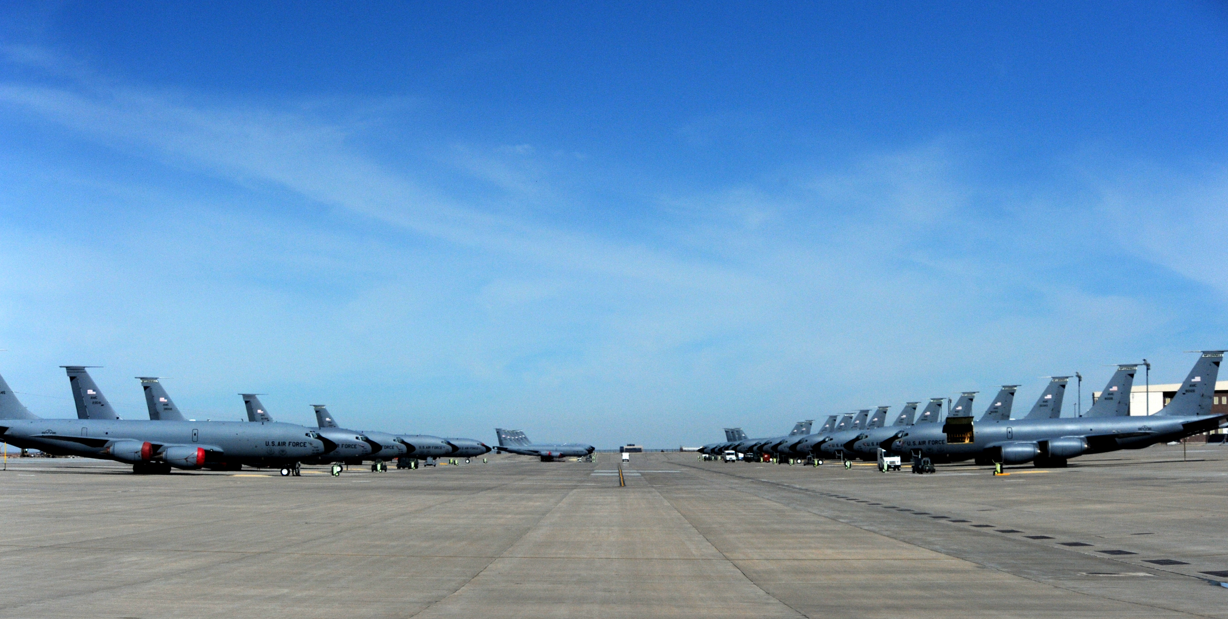 An ensemble of KC-135 Stratotankers rests on McConnell Air Force Base, Kan., flightline March 10, 2014. McConnell AFB was selected to be the new home of the KC-46A Pegasus, the Air Force’s newest aerial refueling platform. The KC-135 has been refueling aircraft at home and abroad since 1956. (U.S. Air Force photo/Airman 1st Class David Bernal Del Agua)